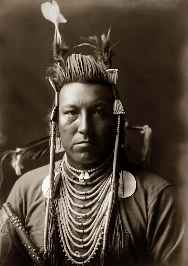 Photograph of Crow Indian Swallow Bird by Edward S. Curtis, 1908. Note: Crow style pompadour and beaded hair pipes.